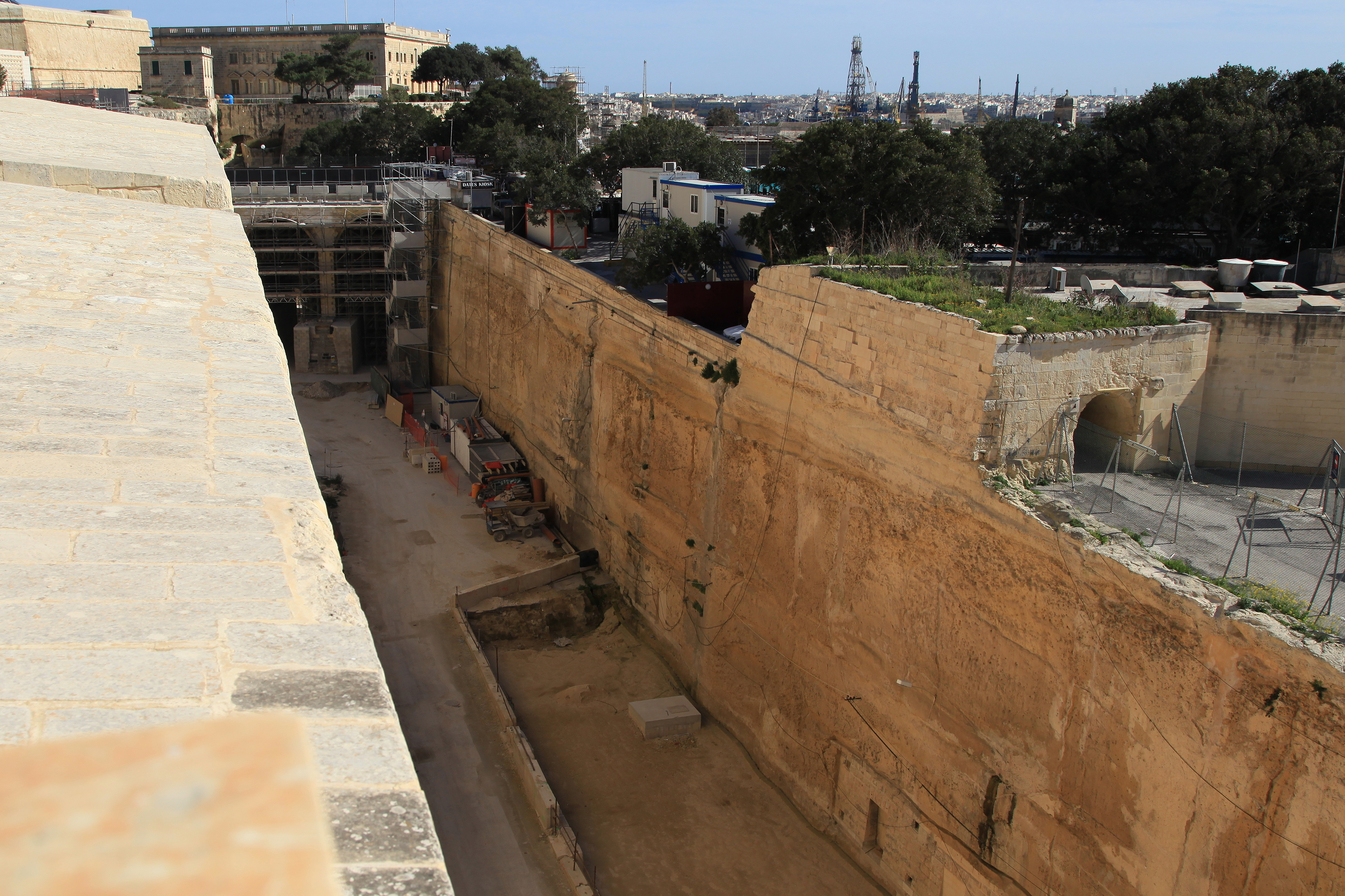 View from the St. John's Bastion to the Valletta Ditch and St. John's Counterguard in Valletta, Malta